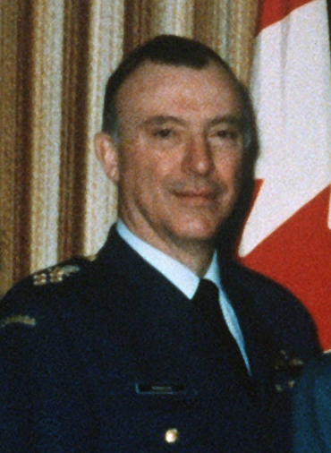 Paul David Manson, cropped from DF-ST-87-12525 Participating in the change of command ceremonies for the North American Air Defense Command (NORAD) and the Space Command are, from left to right: General (GEN) and Mrs. John L. Piotrowski, new commander of the Space Command; General (GEN) Paul D. Manson, Chief of Defense Staff, Canada; Admiral (ADM) and Mrs. William J. Crowe, chairman, Joint Chiefs of Staff; and General (GEN) Robert T. Herres, former commander of the US Space Command and NORAD.